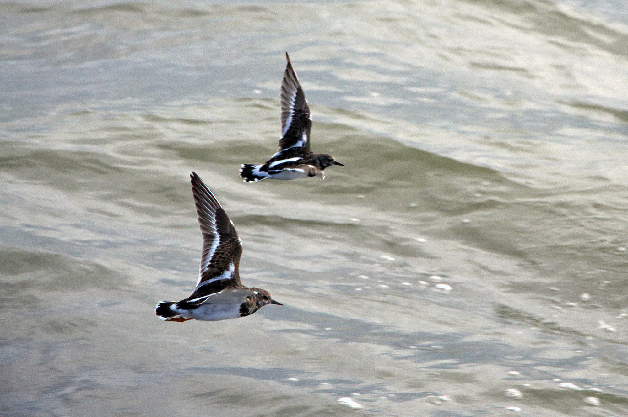 seen in Wilhelmshaven, Germany